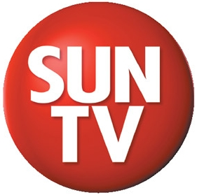 SUN TV logo